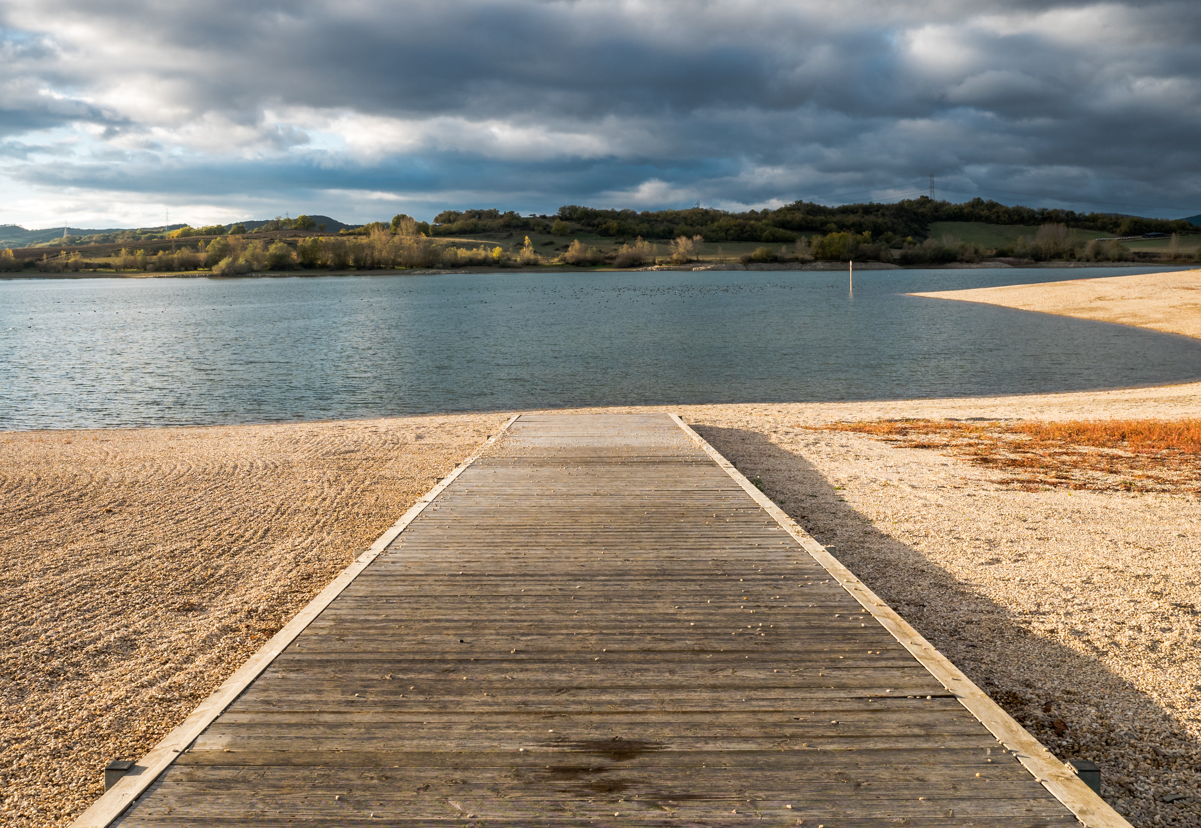 Access to Garaio beach, Ullíbarri-Gamboa reservoir. Álava, Basque Country, Spain